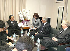 Chuck Hagel, Senator, and Tom Schieffer, Ambassador to Japan, met Yasukazu Hamada, Minister of Defense, at the Ministry of Defense in Shinjuku Ward, Tōkyō Metropolis, on October 16, 2008.